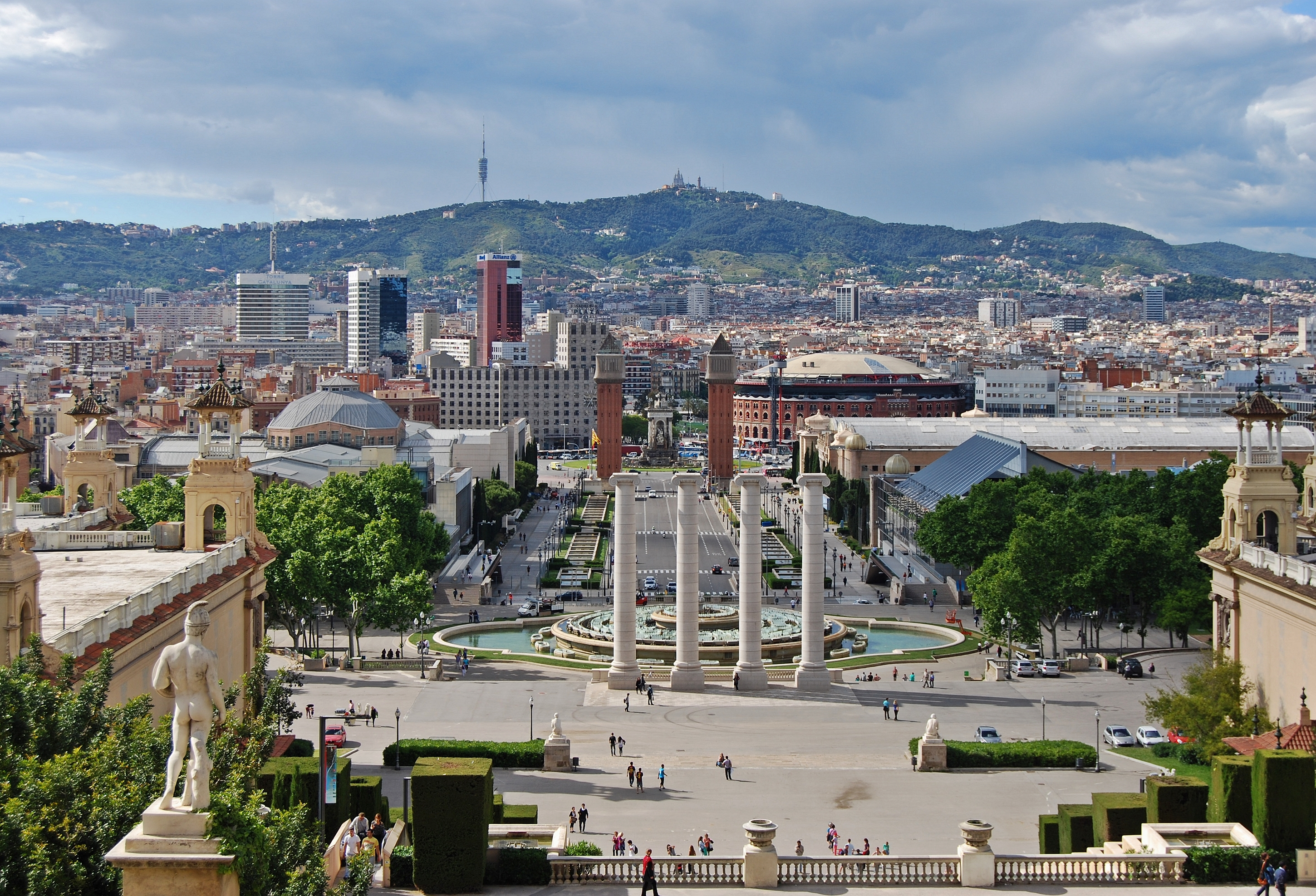 View from Palau Nacional, Montjuïc, Barcelona.